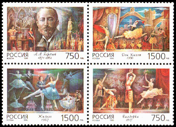 Stamps of Russia «Russian ballet (end of series). The 125 birth anniversary of A.A.Gorsky (1871-1924) », 1996